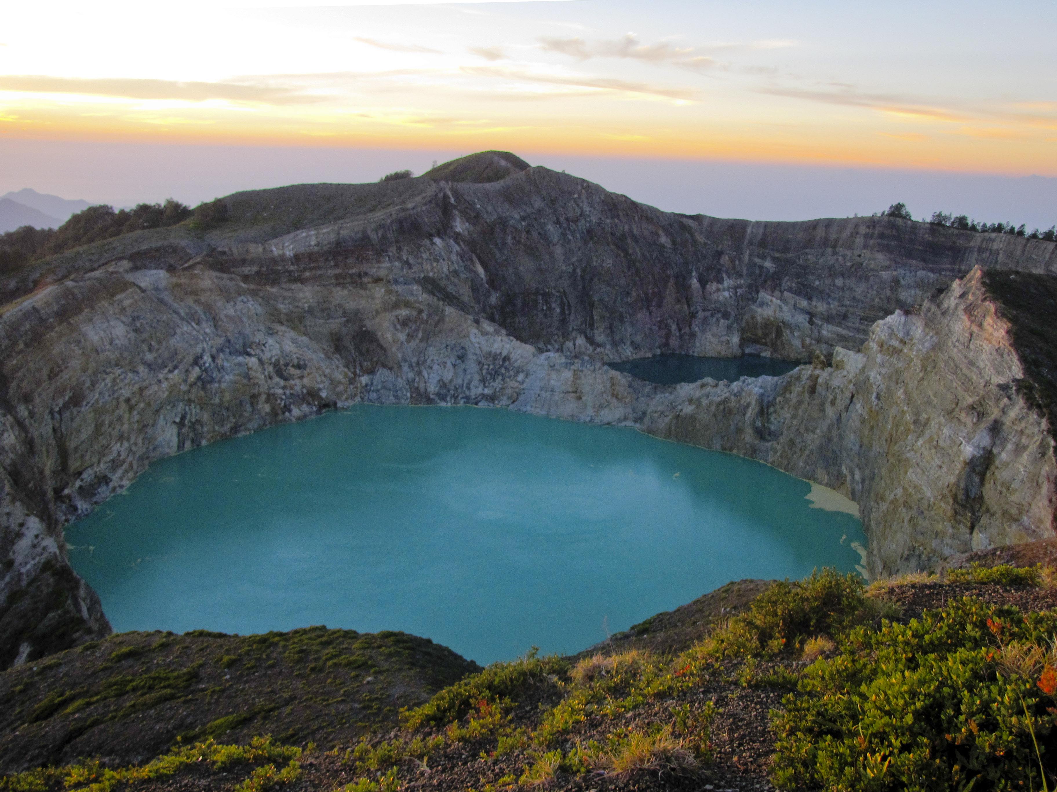 Kelimutu volcanic lake, Flores, at sunrise